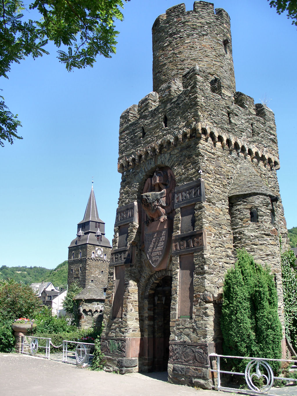 War Memorial and St. Barbara Church (Background) in Braubach